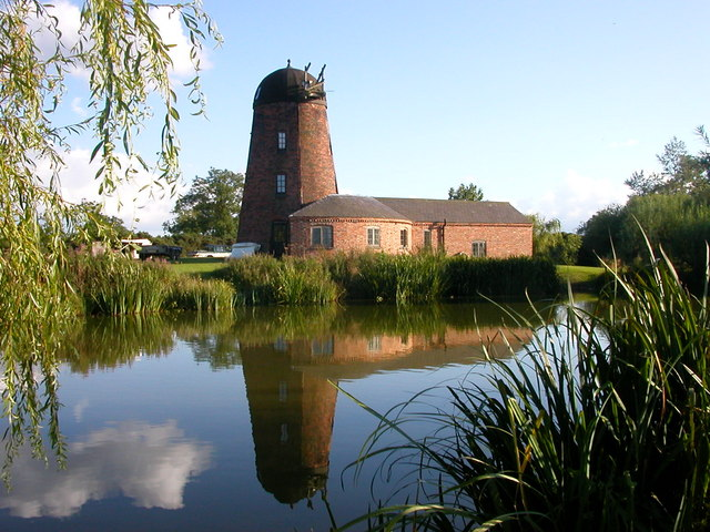 Barby Mill, Northamptonshire, and fish pond in evening sunlight